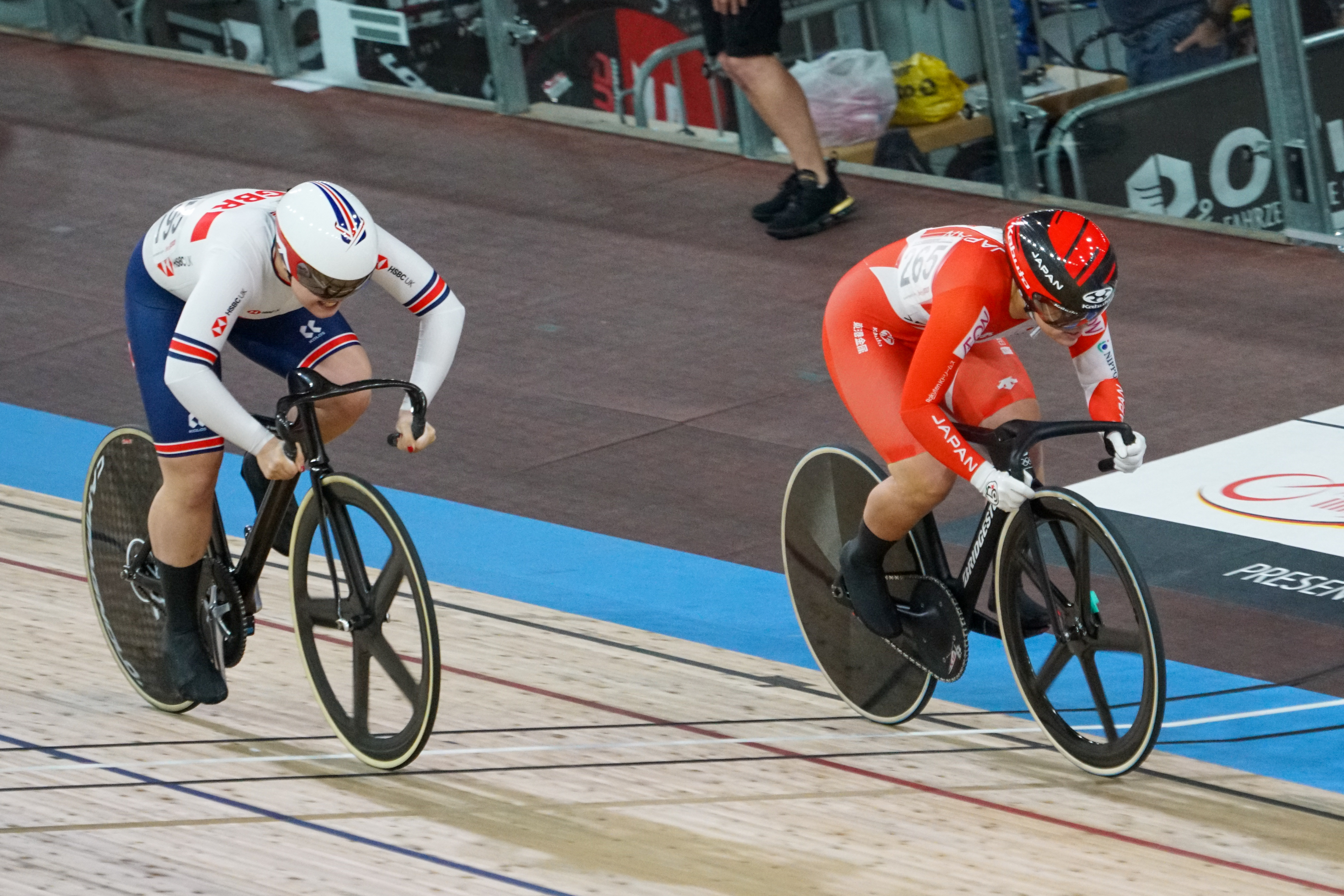 2020 UCI Track Cycling World Championships – Women's Sprint - 1/16 Finals - Sophie Capewell (l.), Yuka Kobayashi